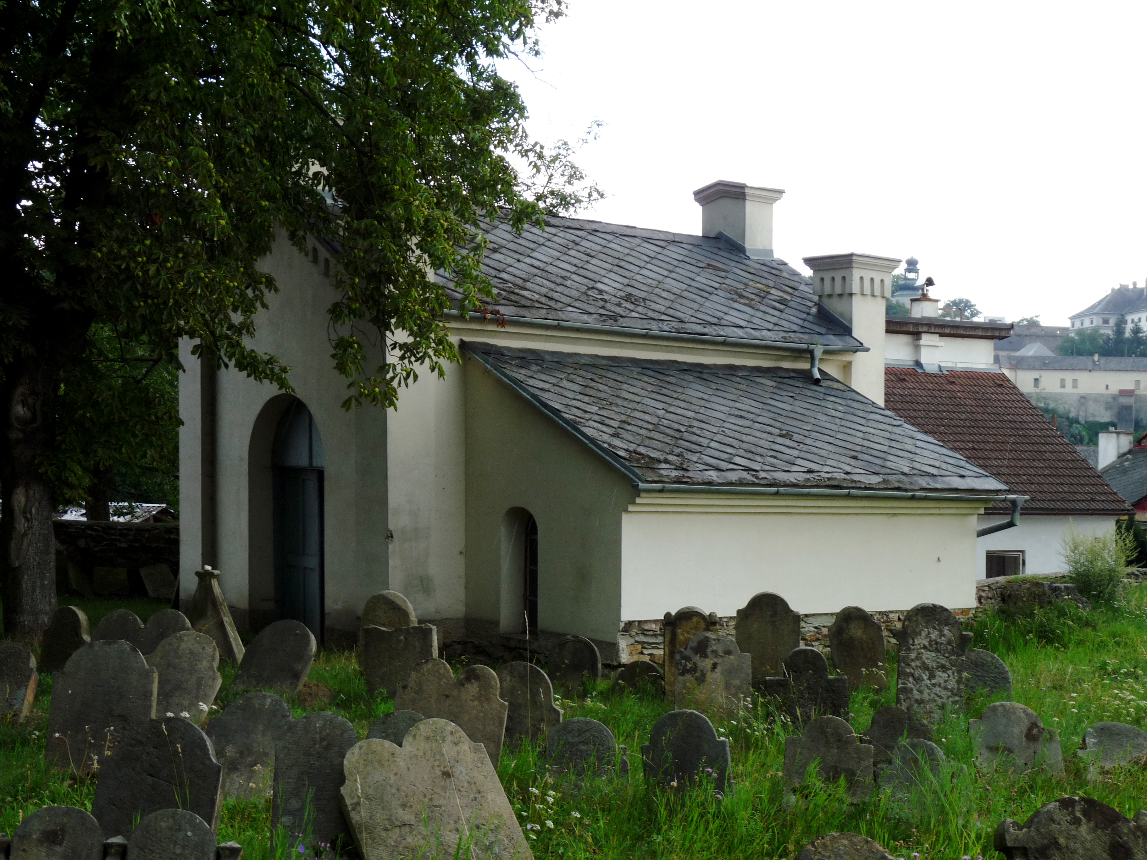 Ceremonial hall in the Jewish cemetery in the town of Úsov, Šumperk District, Czech Republic.